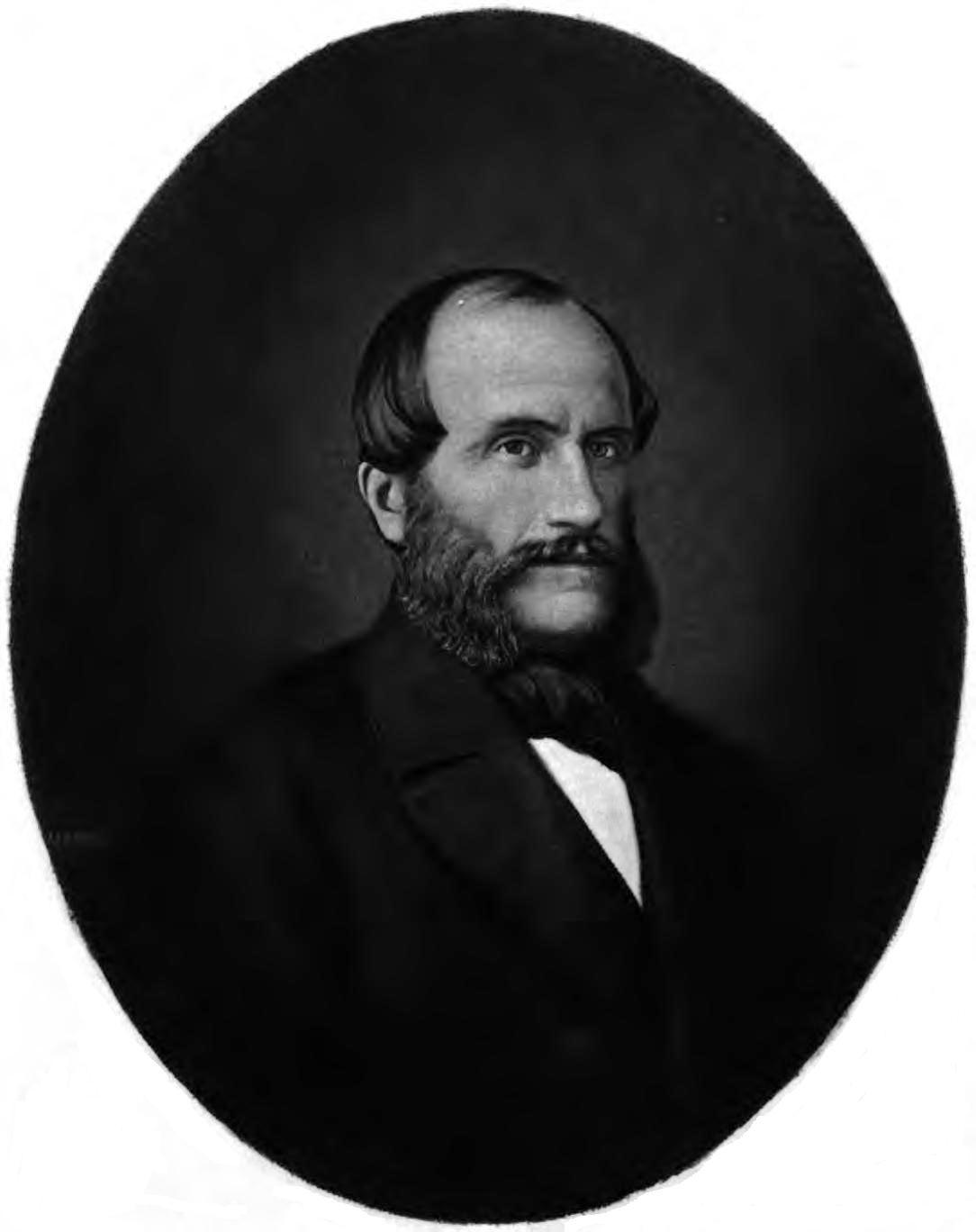 Portrait of Barbu Catargiu (1807-1862)